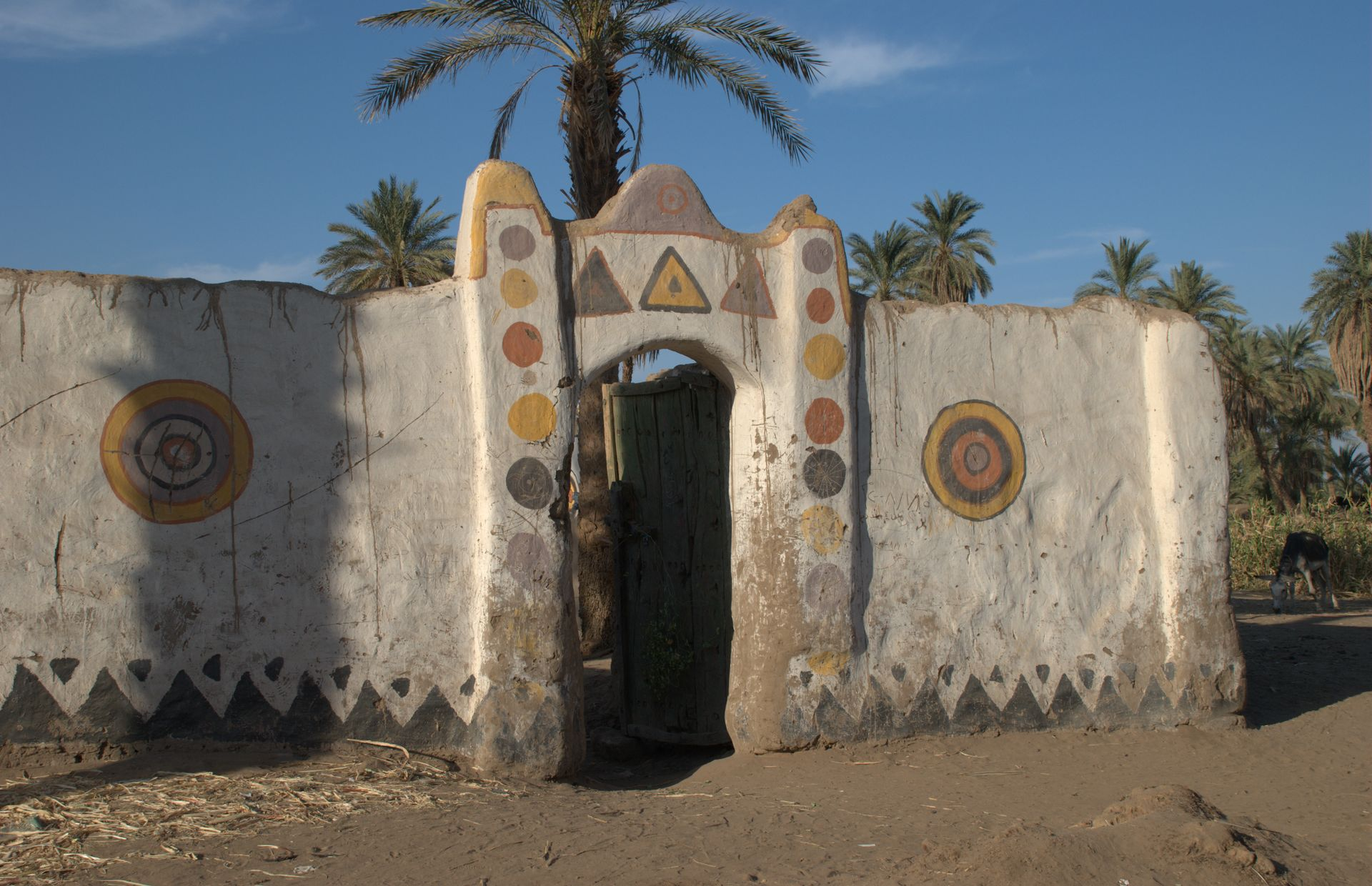 Dongola, Sudan, last of traditional Nubian houses